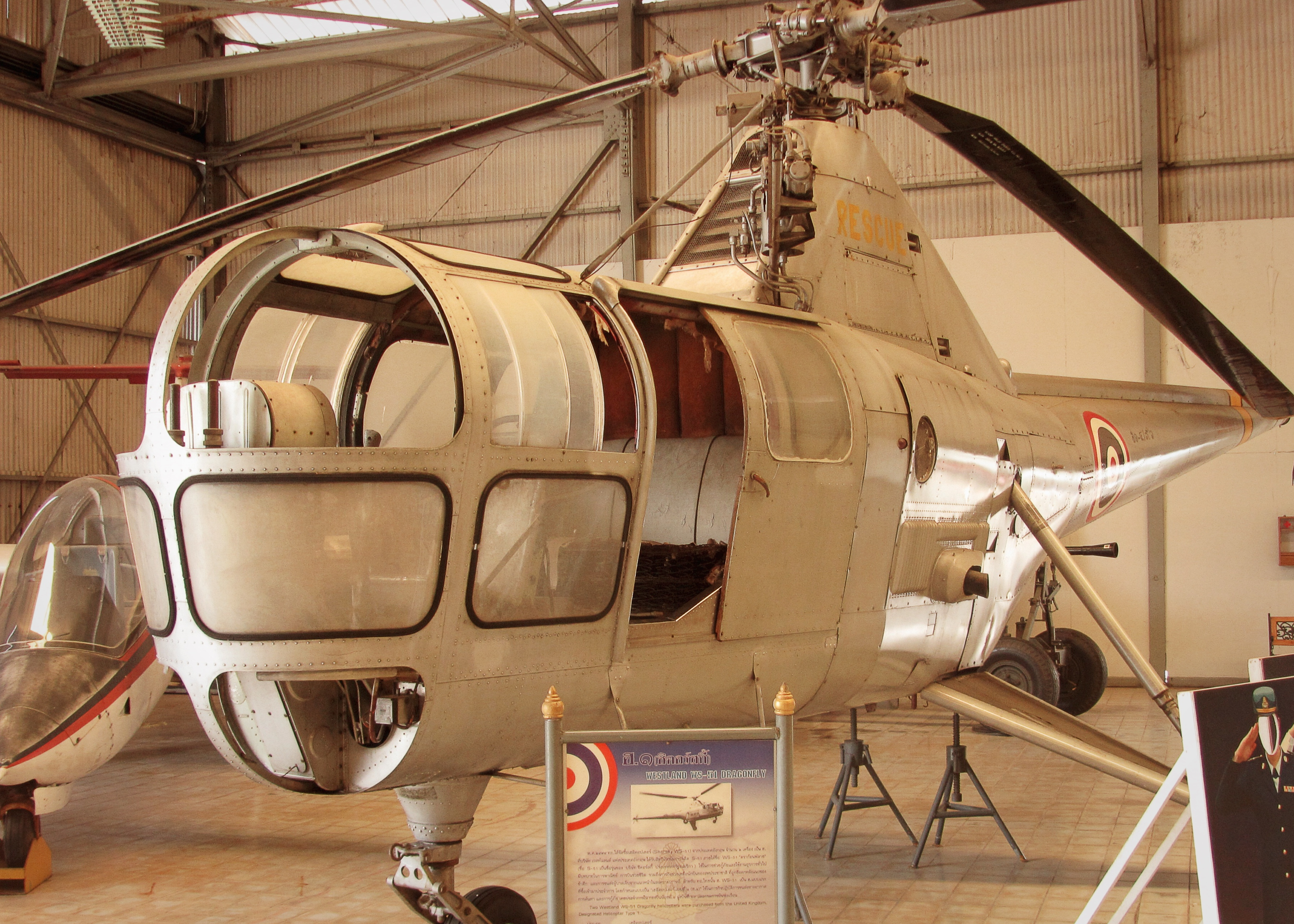 Westland Dragonfly in Royal Thai Airforce Museum in Bangkok